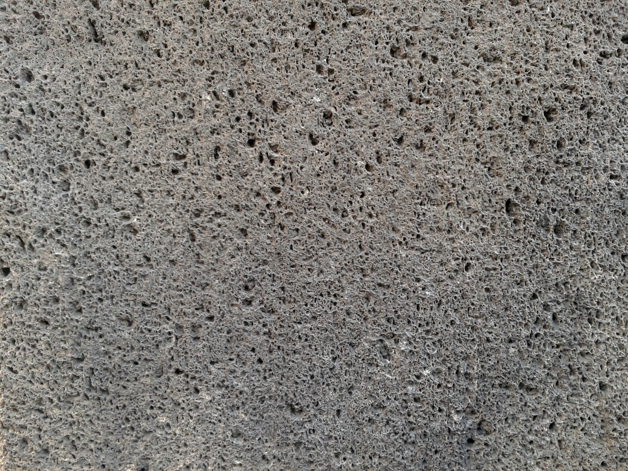 A cut block of trachyandesite lava, used as a type of building stone known locally as "La pierre de Volvic" ("Volvic Stone"), forming part of the walls of Notre-Dame-de-l'Assomption Cathedral in Clermont-Ferrand, France. This rock originally formed part of a trachyandesite lava flow that was erupted 11,000 years ago from Puy de la Nugère volcano during a strombolian-style eruption. This trachyandesite is frost-resistant and has a low coefficient of expansion, making it an attractive material for construction. This view is about 10 centimetres across. (Some parts of this description are based on a translation of some sentences of the French Wikipedia article which is Copyright CC-BY-SA-3.0).